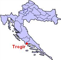 Locator map of Trogir in Croatia.